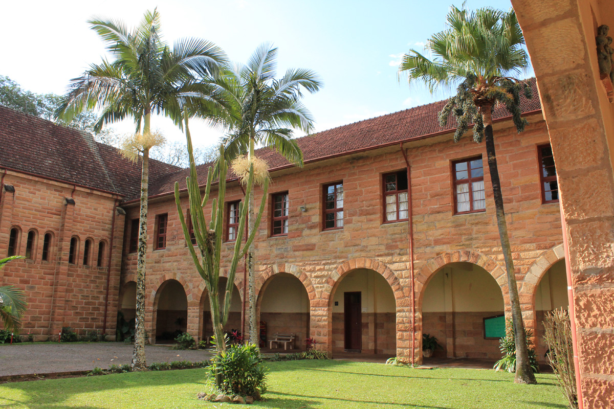 Pátio interno do Convento São Boaventura